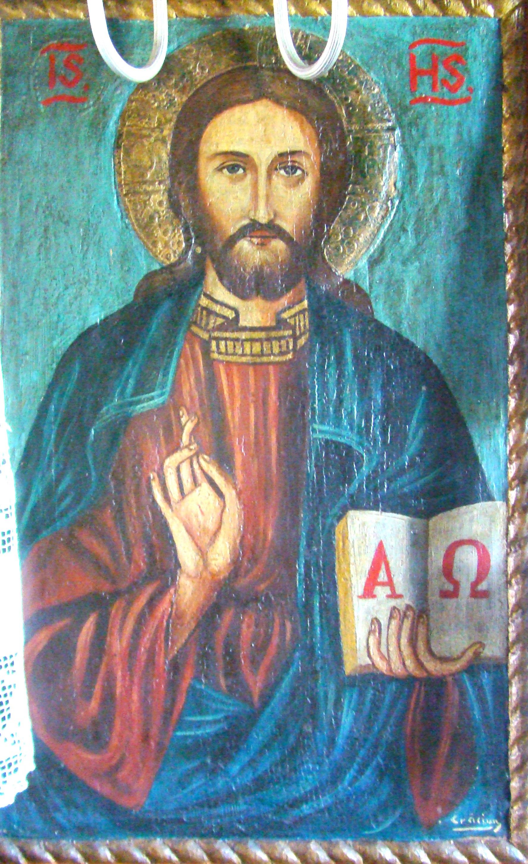 The wooden church in Stoboru, Sălaj county, RomaniaRomână: Icoană împărătească: Isus binecuvântând